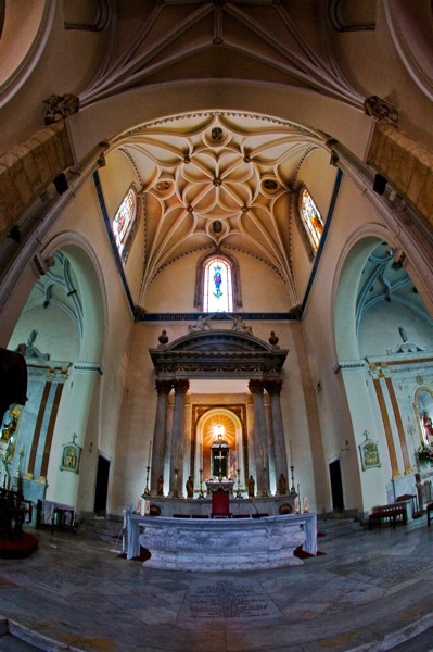 View of the high altar in the Catholic Cathedral of St. Mary the Crowned, Gibraltar. Chapel of Our Lady of Europe to the left; altar of the Blessed Sacrament to the right.